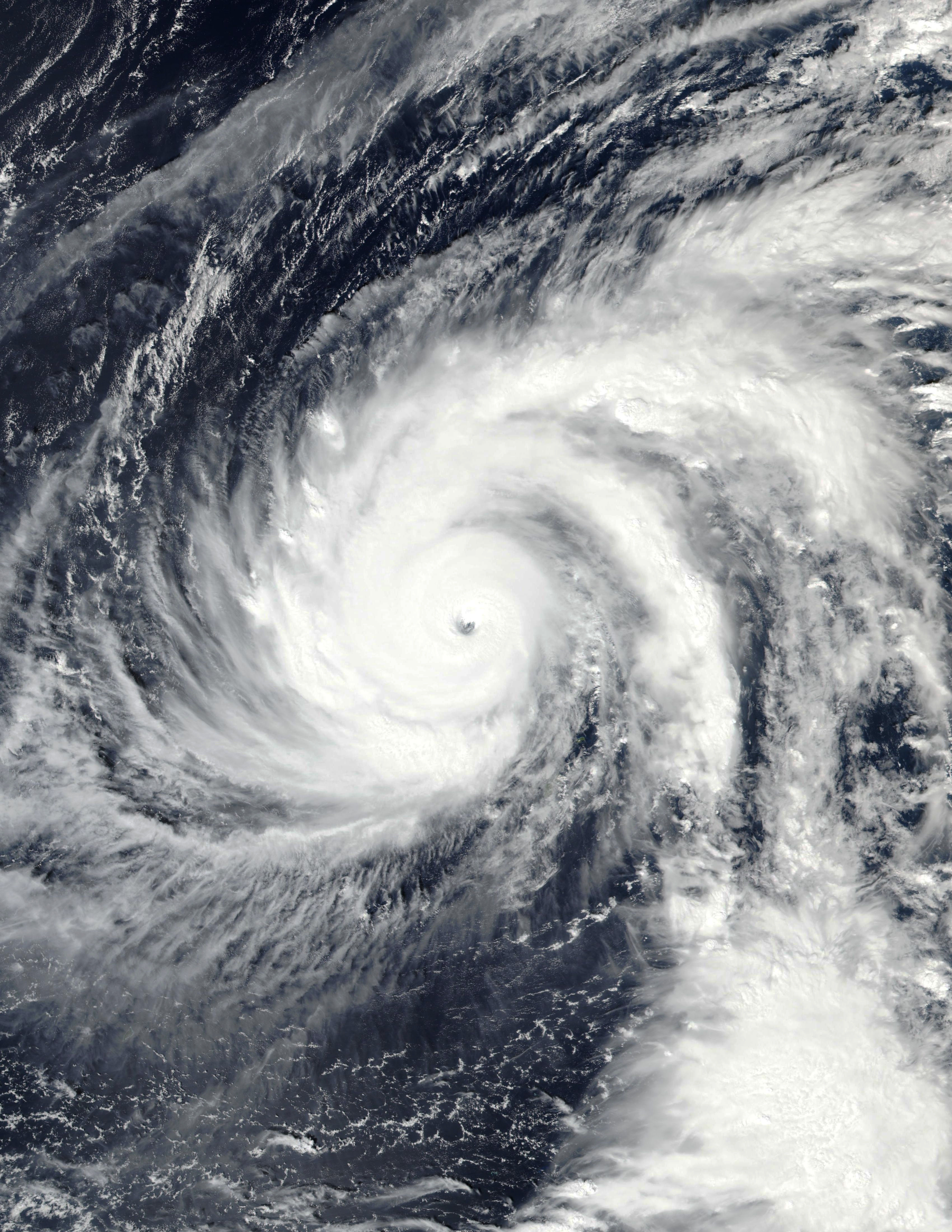 Typhoon Yutu on October 25, 2018